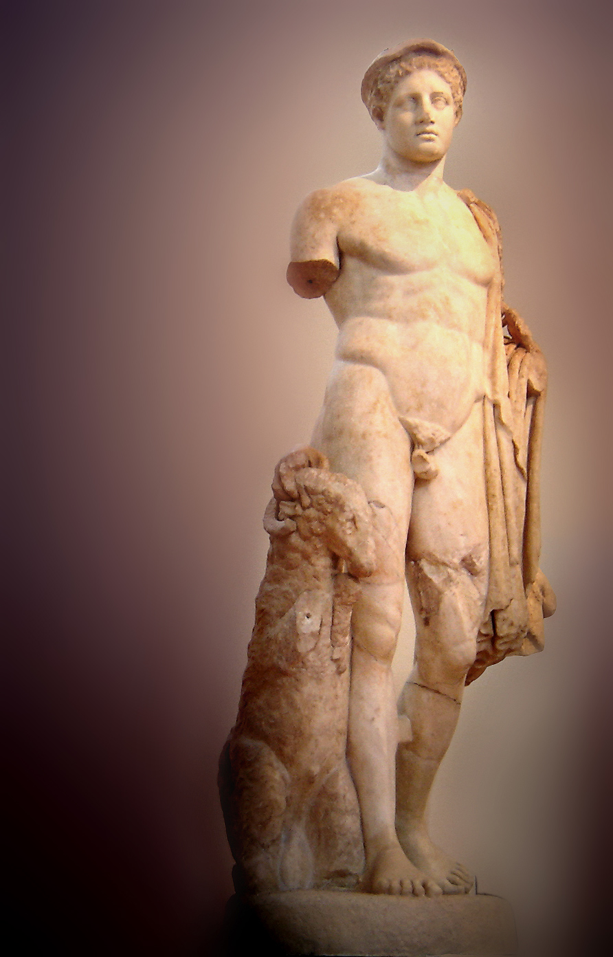 Hermes Criophorus (Ram-Bearer) from Troezene. Pentelic marble, Roman copy of the 2nd century CE after a Greek original of the 5th century BC (museum description) or a Roman free adaptation of the Doryphoros type (Legrand).